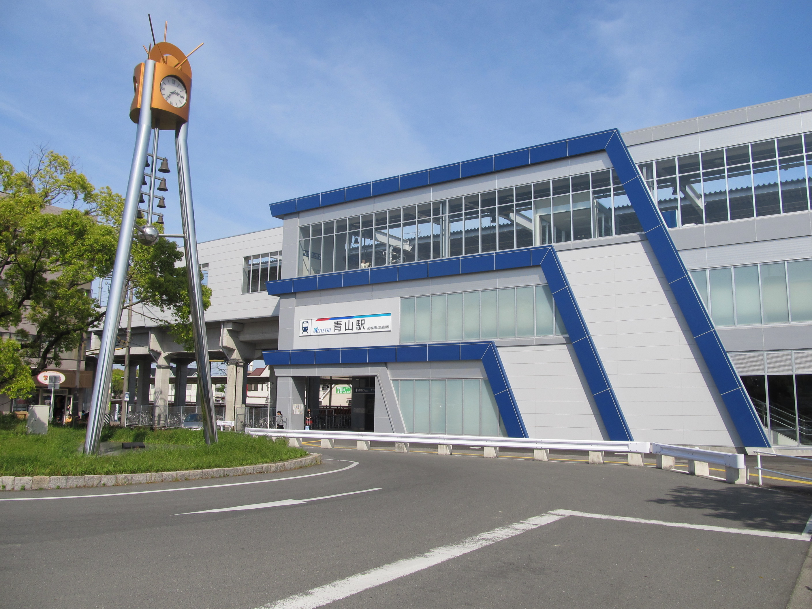 Nagoya Railroad Kōwa Line Aoyama Station Plaza